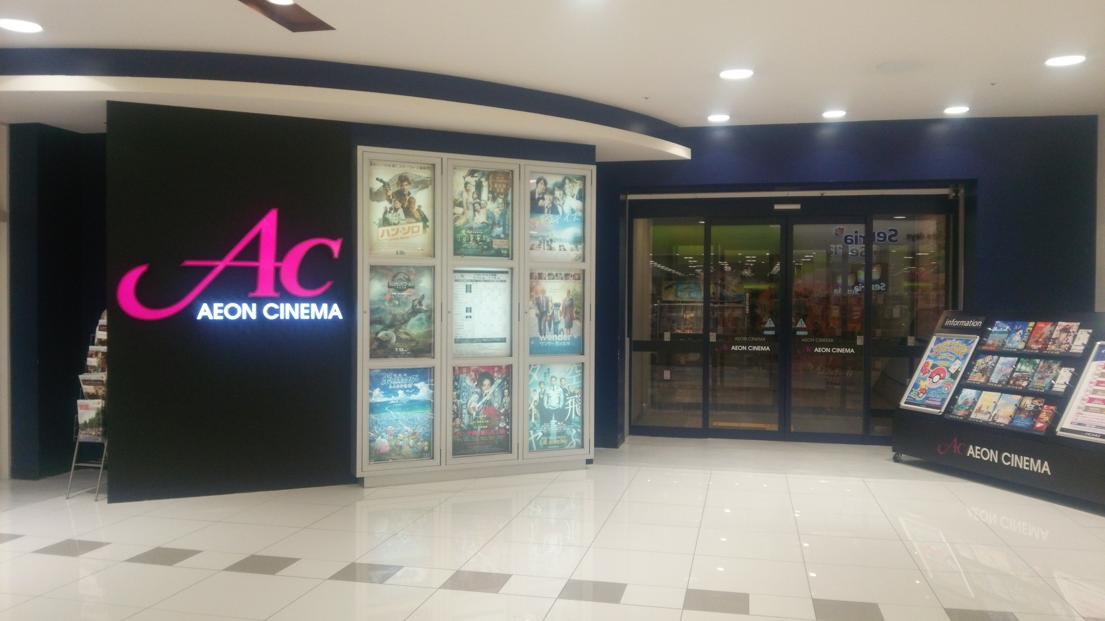 AEON CINEMA Suzuka